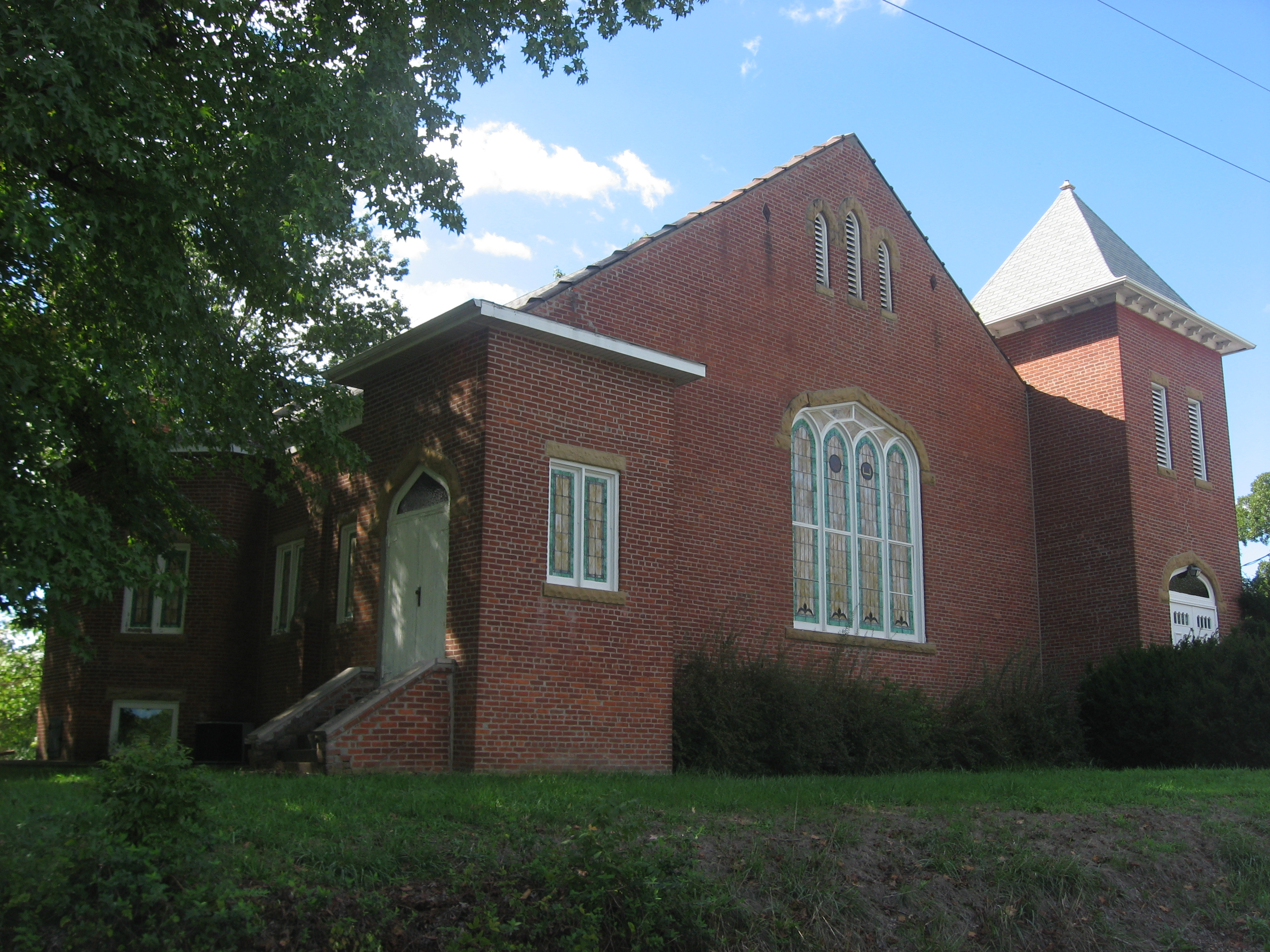 Front of the former Oakdale Reformed Presbyterian Church, located on the southwestern corner of the junction of Second and Walnut Streets in Oakdale, Illinois, United States. It was built in 1901.